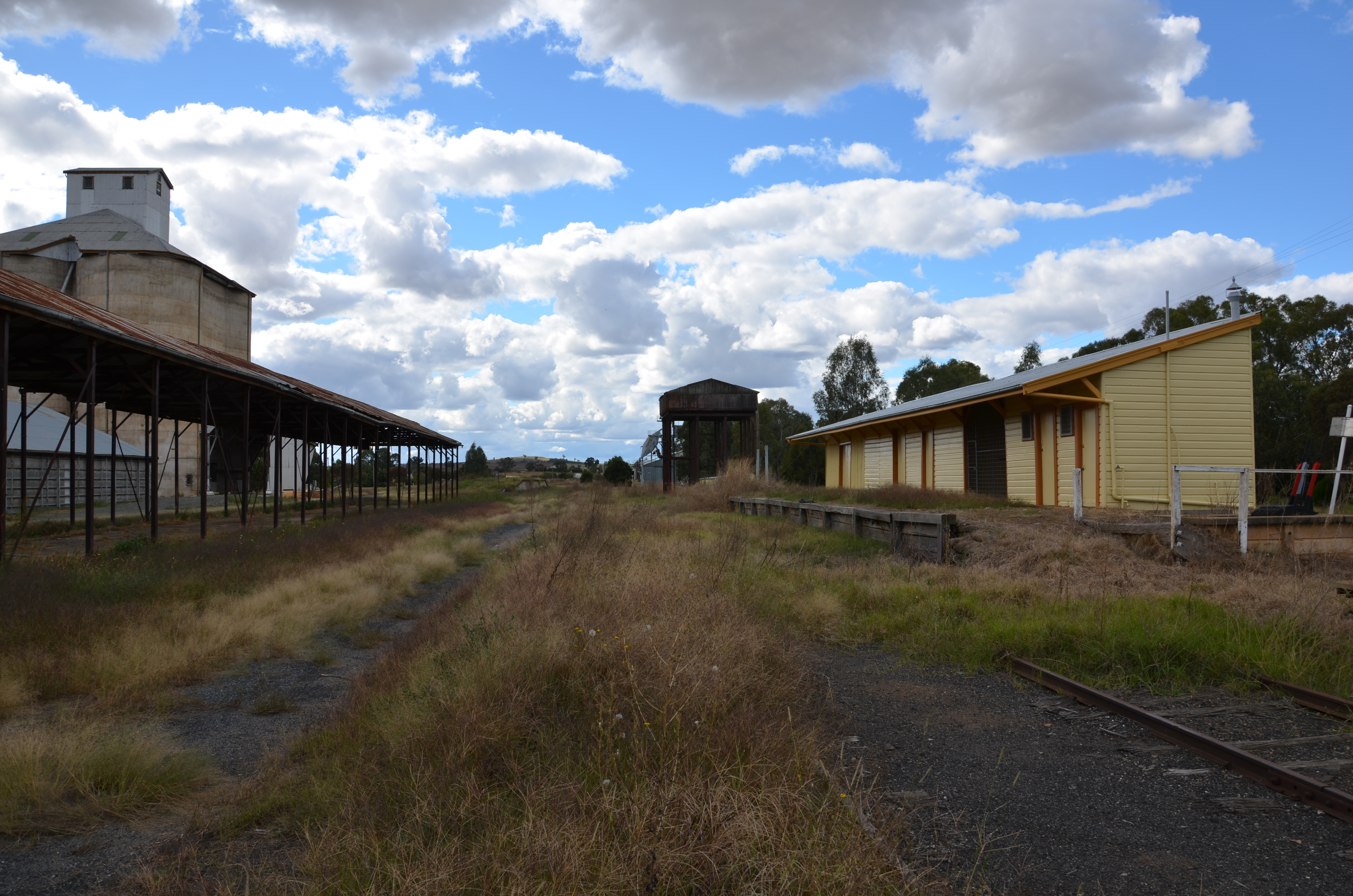 Canowindra Station, original end of the Canowindra Branch Line (now the Eugowra Branch). No train has used the track since 2001.